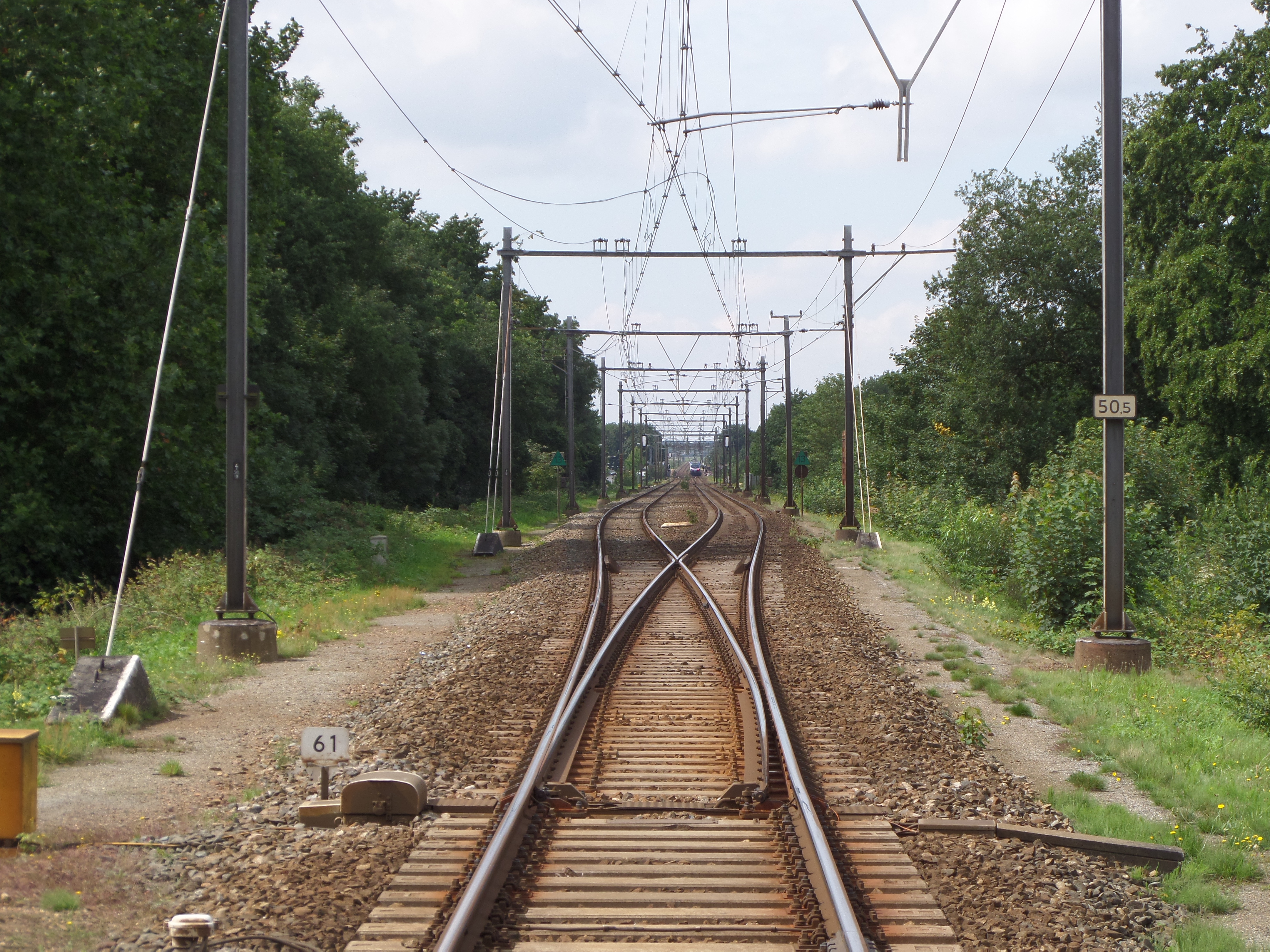 Y points near Ravenstein station, the Netherlands, near a single-track bridge in an otherwise double-track line. The divergence of the points is 1:20, speed limit 120 km/h. In the distance train 4441 Arnhem Centraal - 's-Hertogenbosch at Ravenstein station.